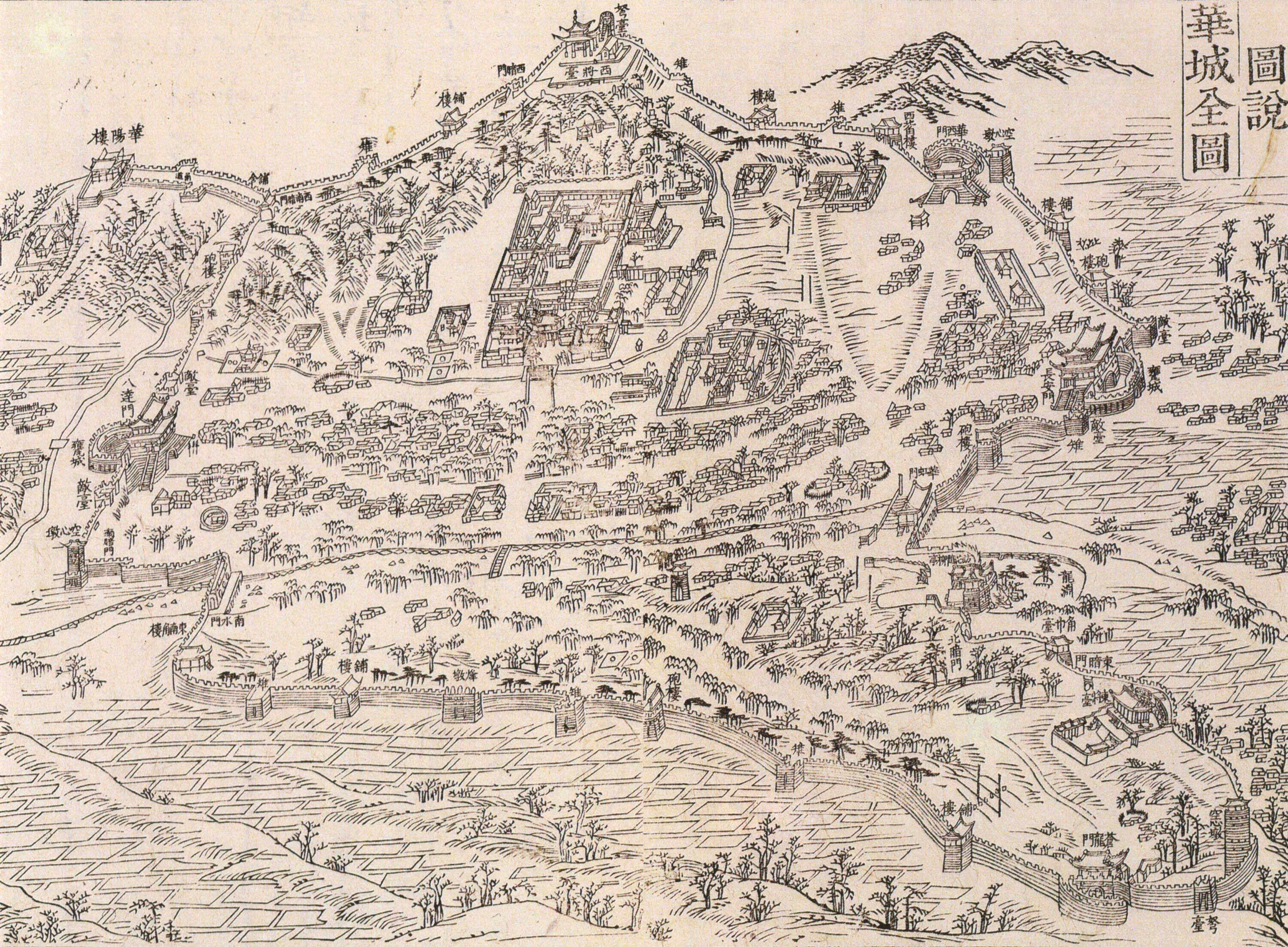 Military map of the Hwaseong Fortress, from the Hwaseong Uigwe. Here, the structures are described using their original (Hanja) names.